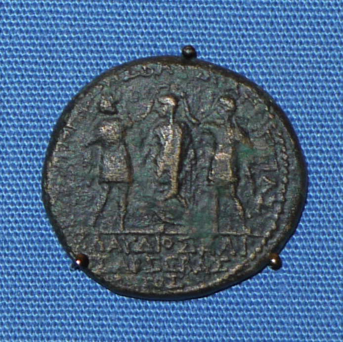 A coin bronze minted by Herod of Chalcis depicting Herod with his brother Agrippa of Judaea crowning Roman Emperor Claudius I. On display at the british museum. CM 1985.10-2.1